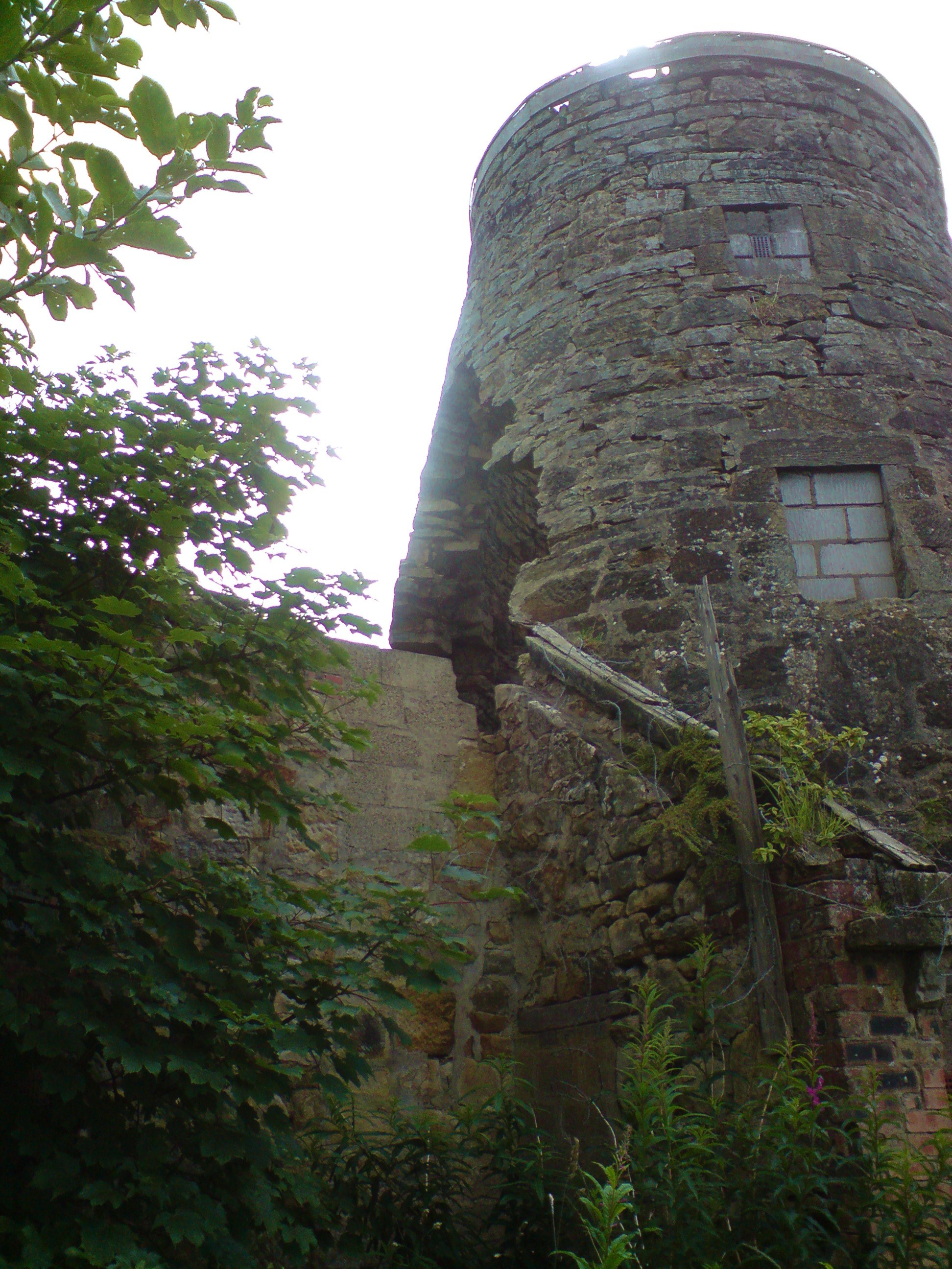 The High Mill Built in 1797, the High Mill of Carluke is the most complete Scottish windmill. The mill was powered by wind for approx 50 years then converted to steam. It was working until the 1930s but is now in a state of collapse despite being an A listed building.